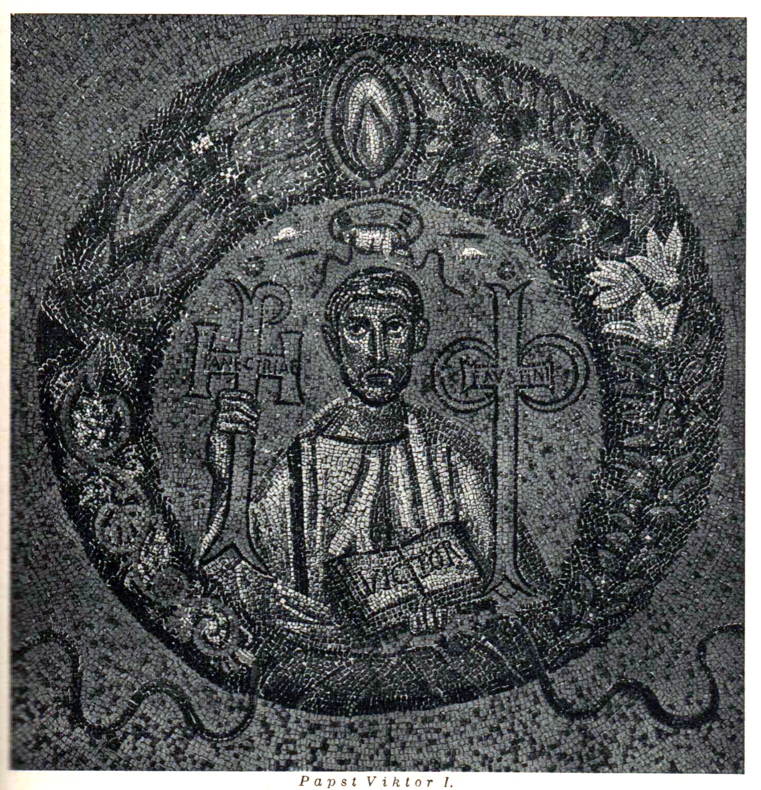 Mosaic with Pope Victor I in Rome